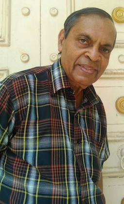 Profile image of Aniceto Nazareth